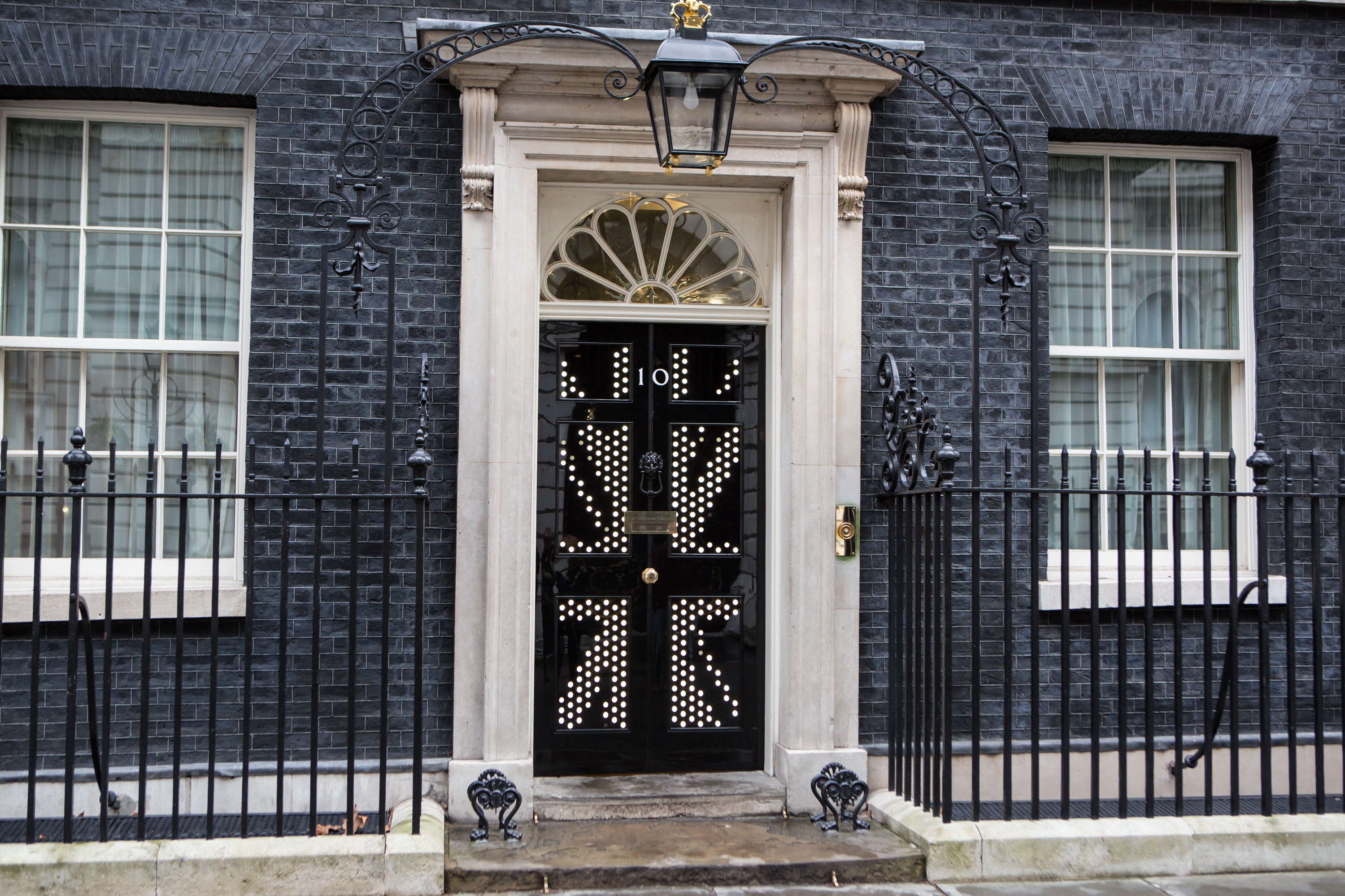 A replica of the No10 front door briefly took the place of the real thing as part of an art installation which will tour the world promoting British business.